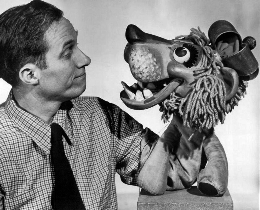 Photo of puppeteer Bil Baird with his lion puppet, Charlemane, from the television program The Best of Discovery. Baird appeared on many television programs for a good number of years. He and his puppets were featured in "The Lonely Goatherd" segment of The Sound of Music. He had his own puppet theater in New York City for many years; Baird began with performances at the Chicago "Century of Progress" World's Fair in 1934.